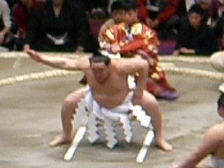 Yokozuna dohyou iri (Unryu-gata: Asashōryū)